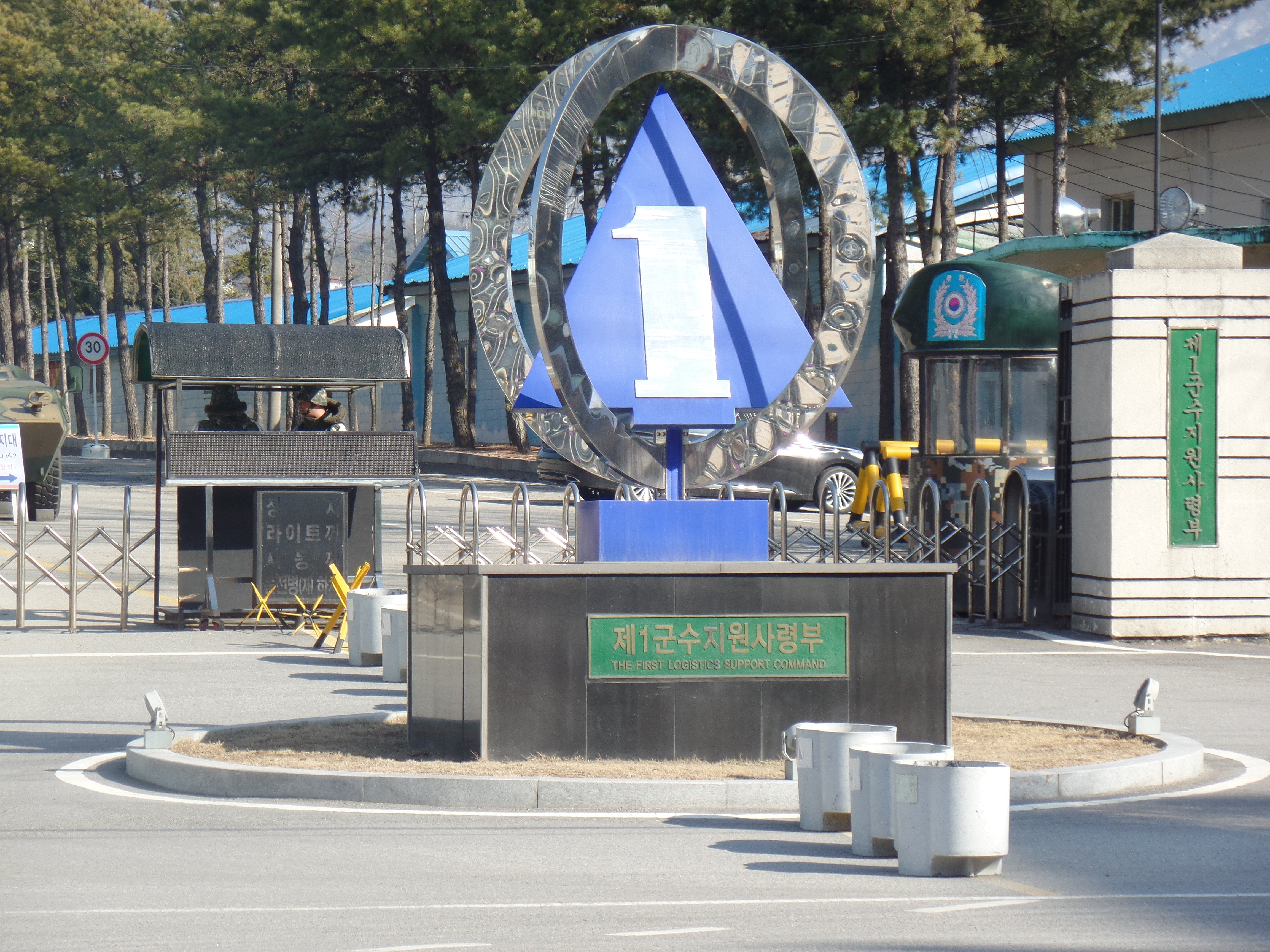 Monument sign of Republic of Korea Army 1st Corps Headquarters